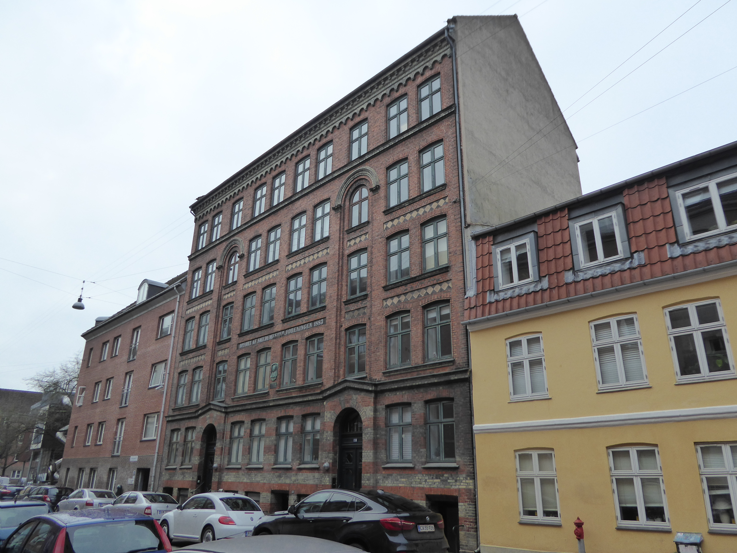 Apartment building at Meinungsgade in Nørrebro in Copenhagen.